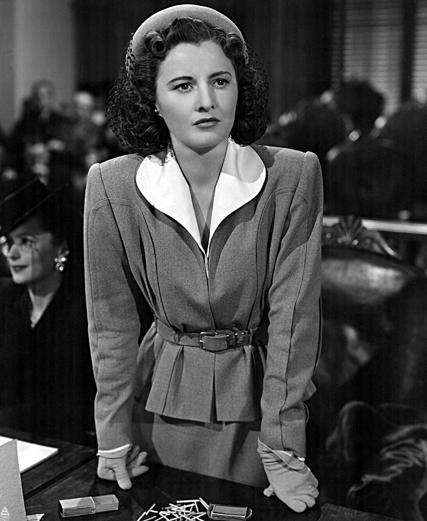 Studio publicity photo of Barbara Stanwyck for film The Gay Sisters